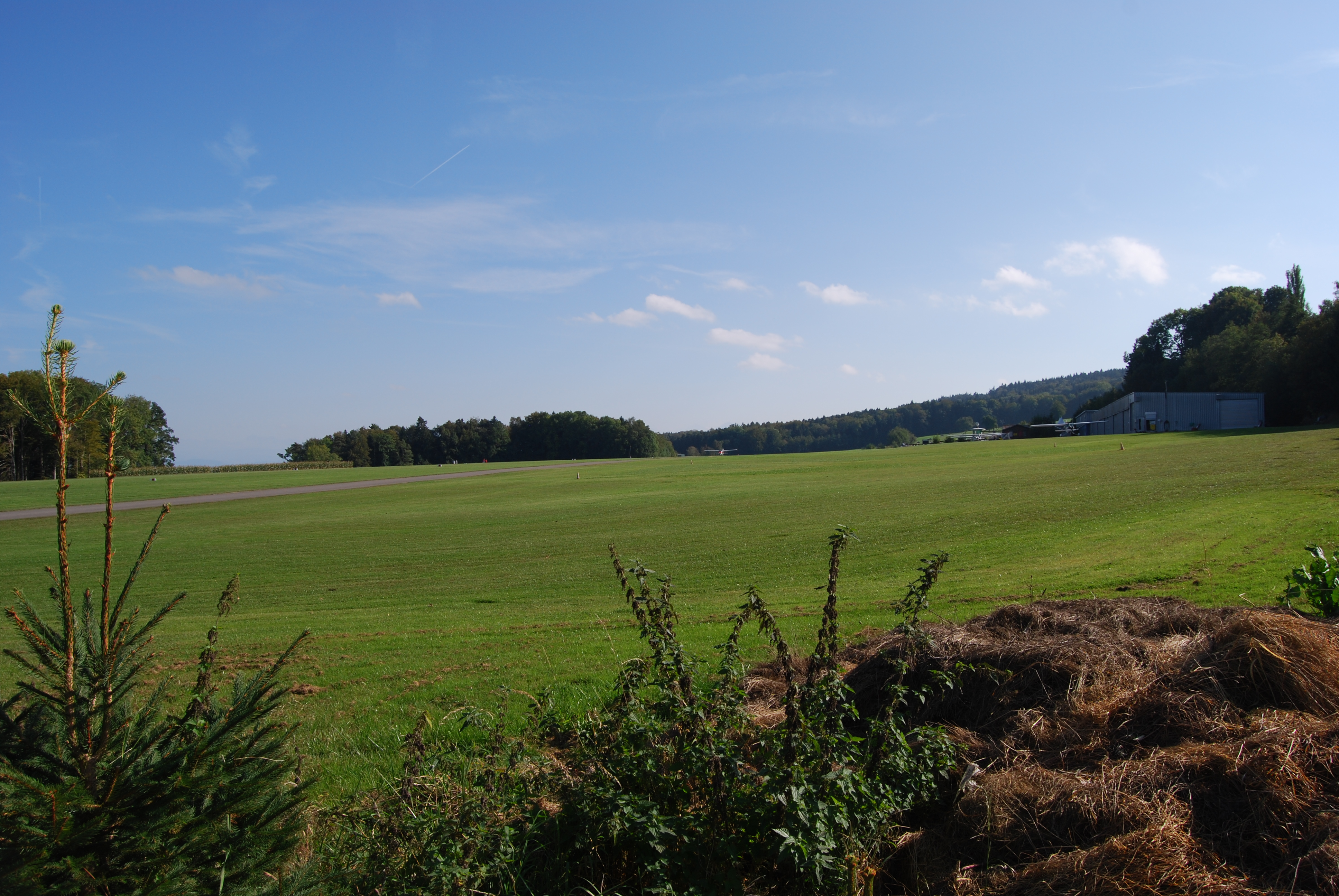 Airfield of Buttwil, canton of Aargau, SwitzerlandEsperanto: Aerodromo de Buttwil, Kantono Argovio, Svislando